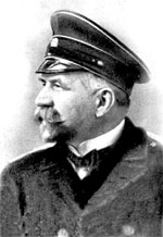 Alexander Ivanovich Varnek (1858 — 1930) — Russian hydrographer and Arctic explorer